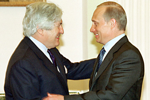 THE KREMLIN, MOSCOW. Vladimir Putin with James D.Wolfensohn, President of the World Bank.